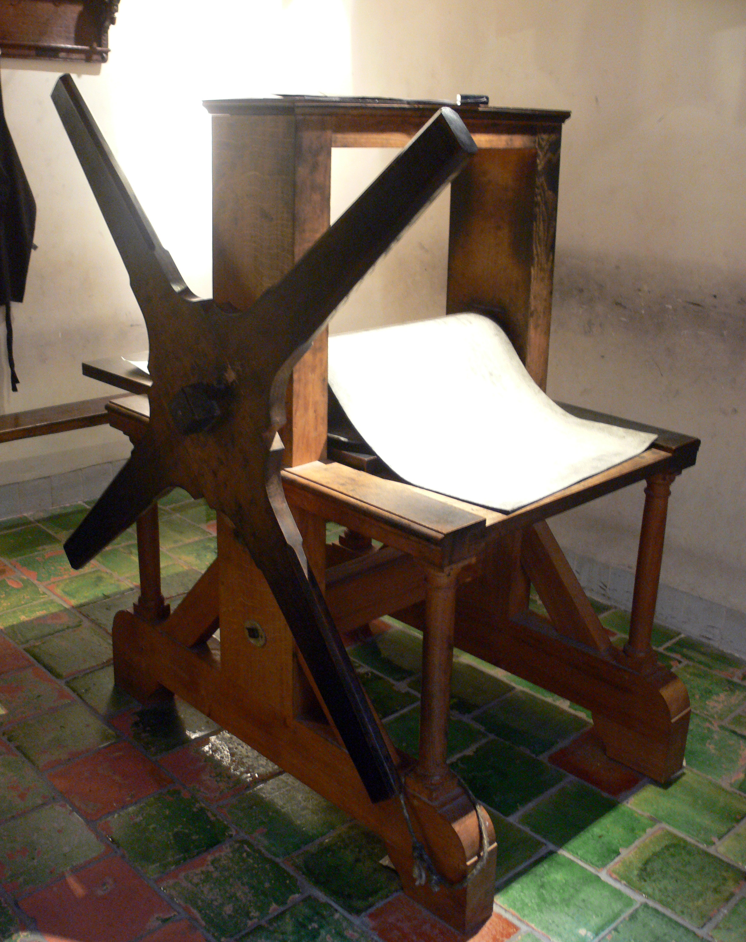 Rembrandt House Museum, printing studio